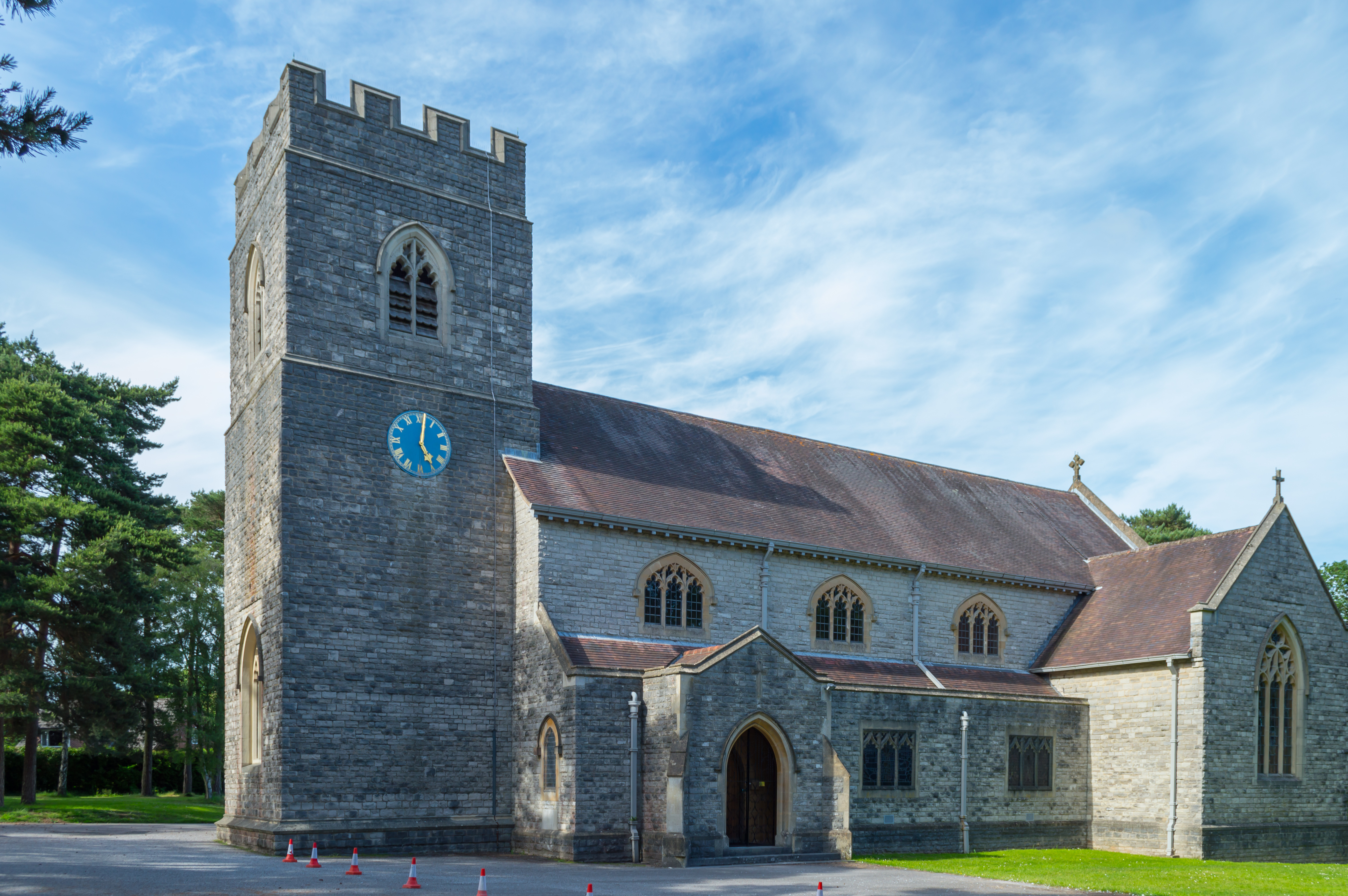 St Mary's parish church, Ferndown, Dorset, seen from the south. The land was given in 1932 and the nave was completed in 1933. The chancel and sanctuary were added in 1939, the transept and vestries in 1966, and tower completed in 1972.